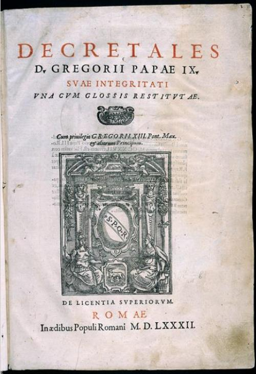 The famous Decretales Gregorii Papae IX, promulgated in the year 1234 and included in the Corpus iuris canonici published in the year 1582